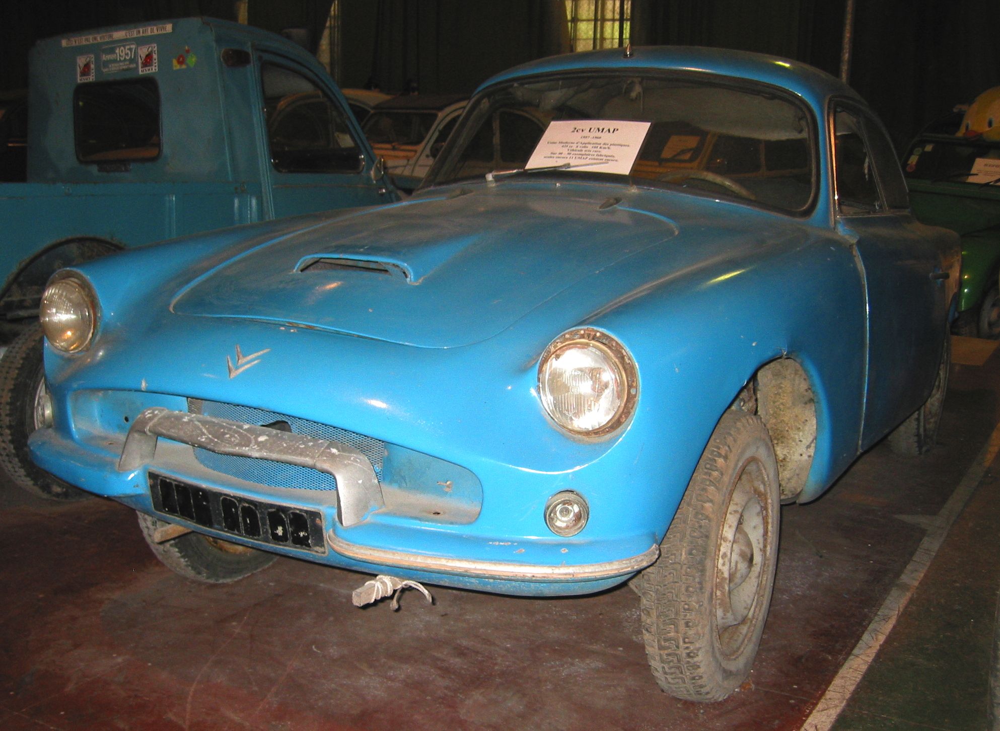 UMAP 1956-1958